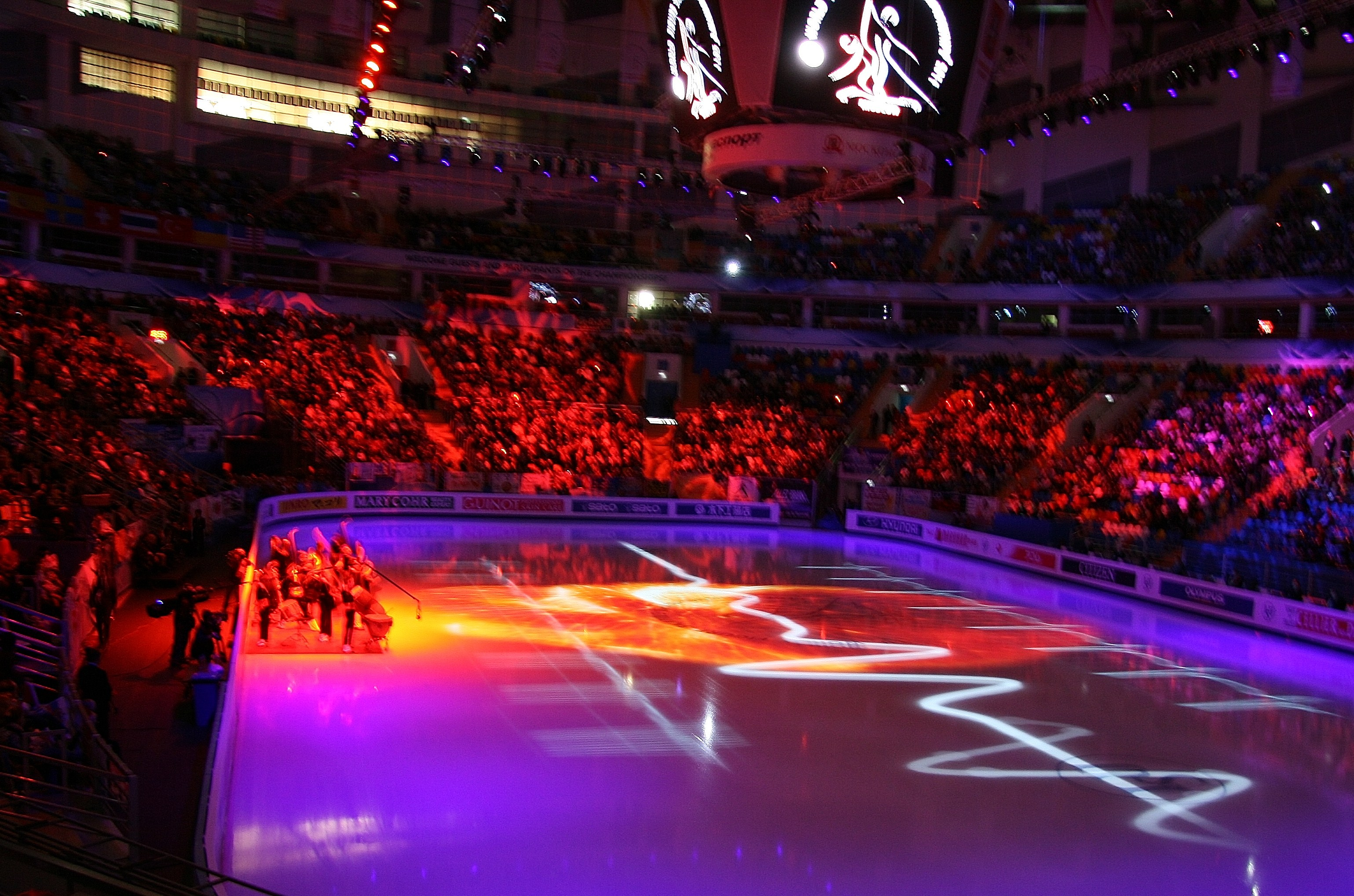 The opening ceremony of the 2011 World Figure Skating Championships dedicated to the tragedy in Japan.